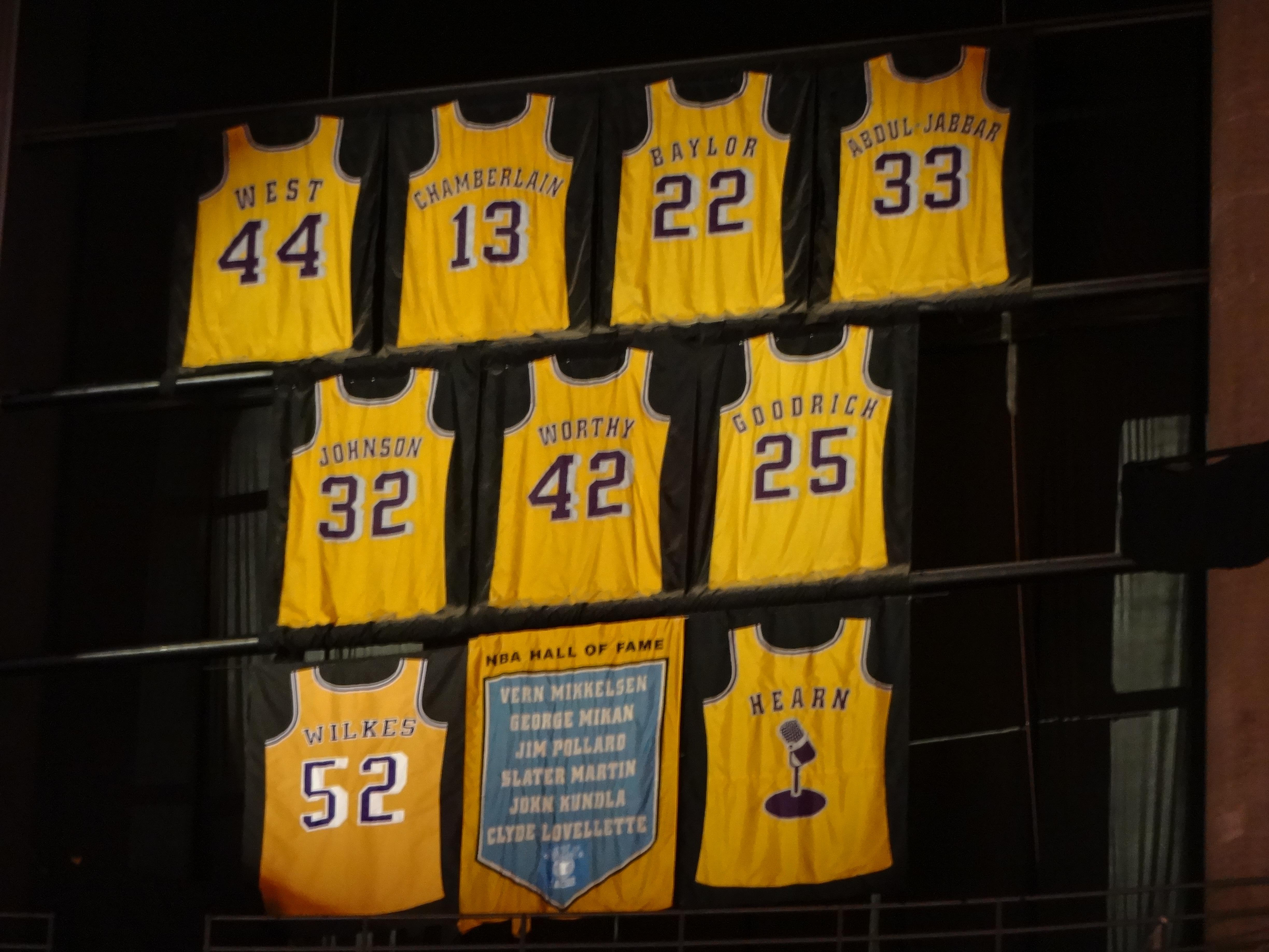 Los Angeles Lakers vs Denver Nuggets at the Staples Center. Display of retired team numbers.